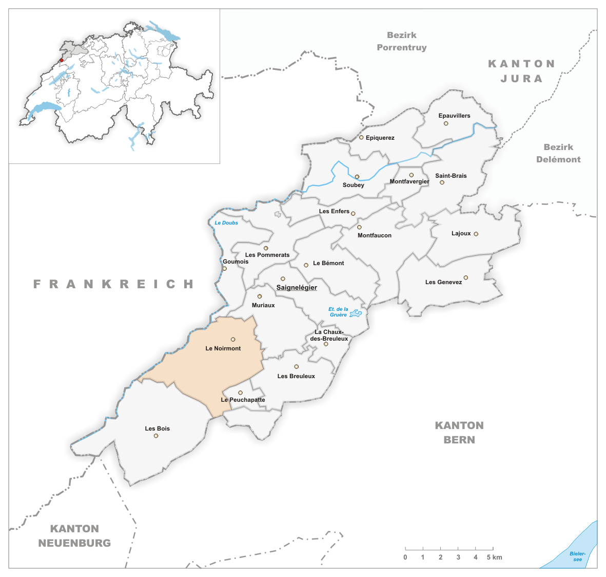 Municipality Le Noirmont